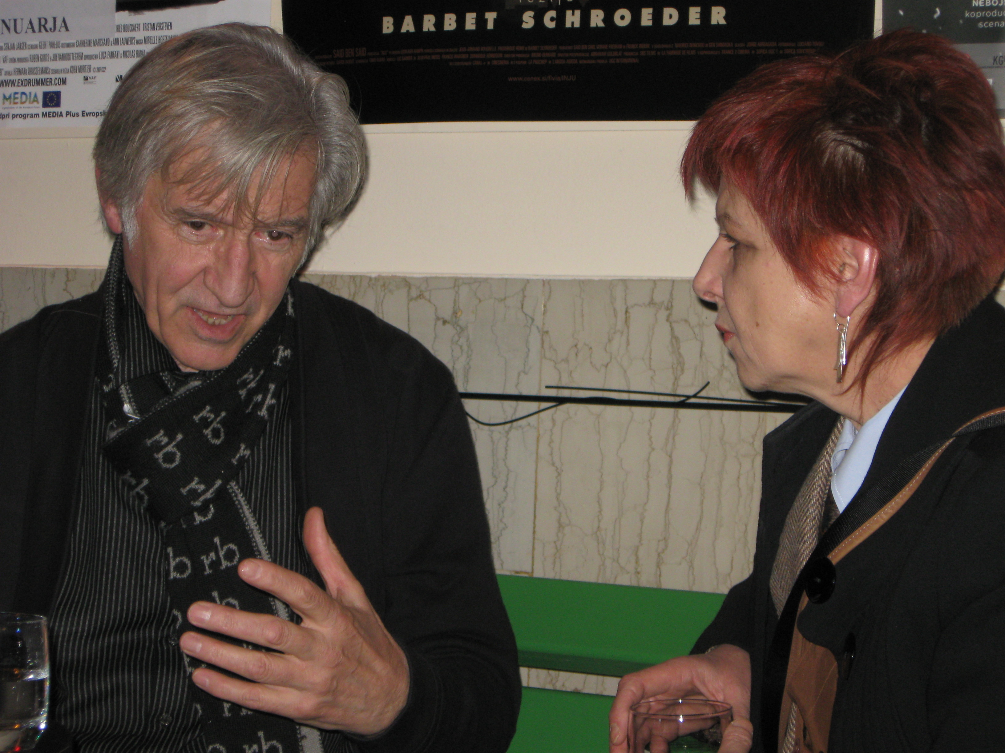 Ljubiša Samardžić in coversation with Slovenian ministre of Culture Majda Širca. In Ljubljana, january 2009.